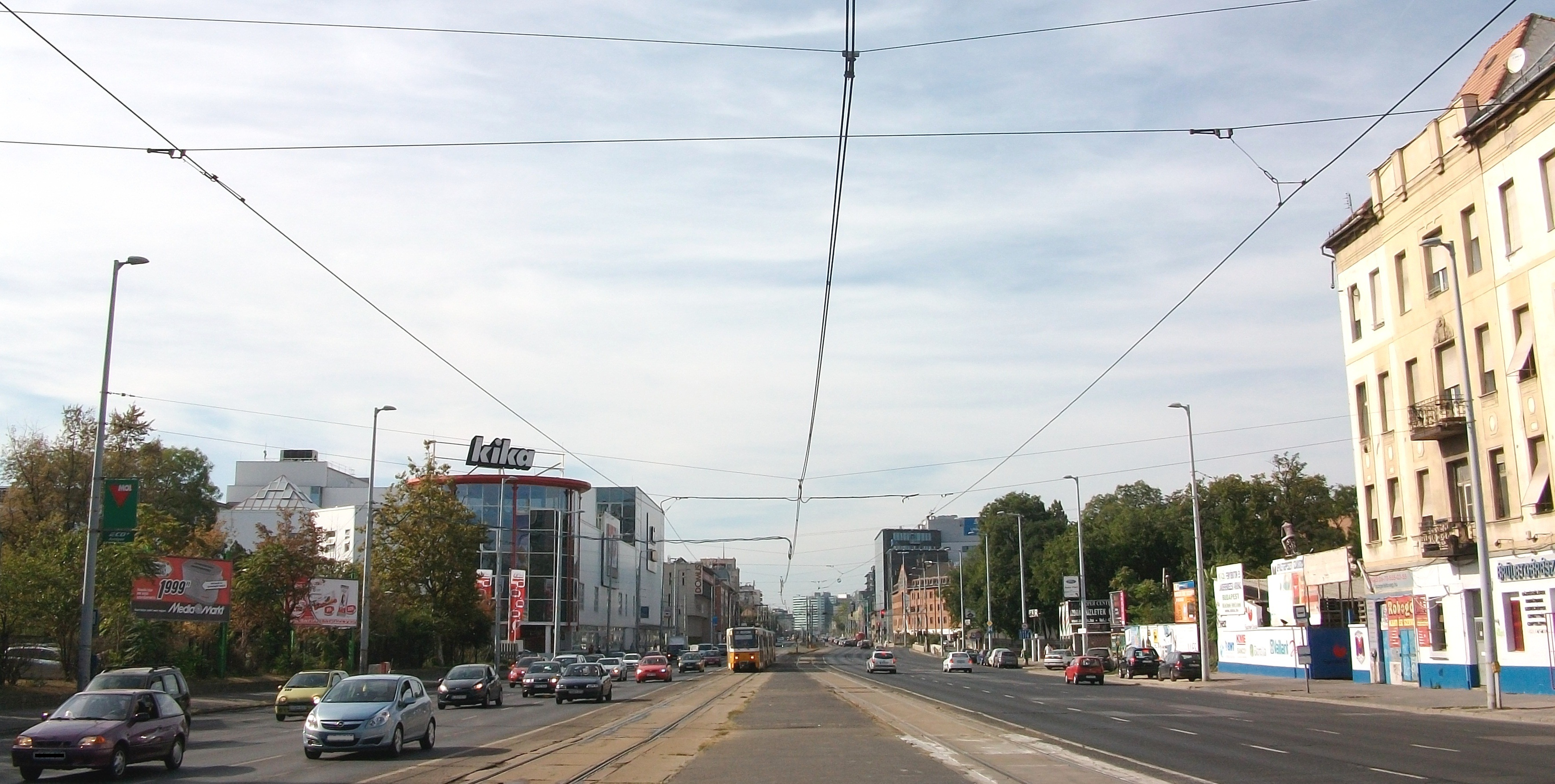 Róbert Károly körút (Charles Robert Boulevard, part of Hungária Boulevard), Budapest, Hungary